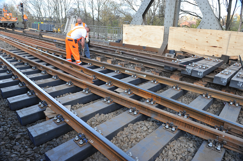 Kunststoff-Weichenschwellen in Hamburg